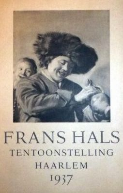 Cover of Exhibition catalog in 1937 for the Frans Hals Museum, with illustration after Frans Hals